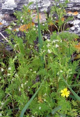 Anthriscus caucalis Author : Augustin Roche Source : [1]